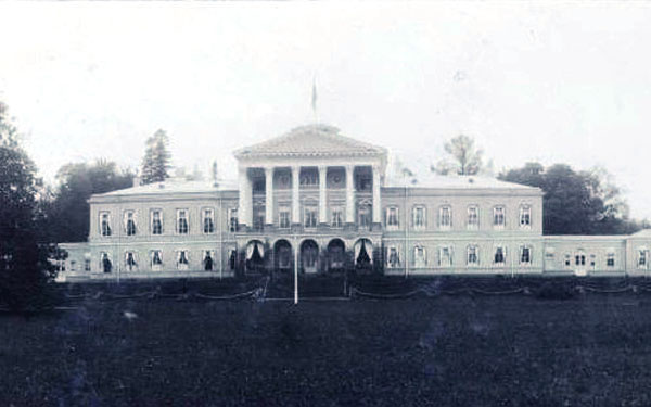 Ropsha Palace in Leningrad Oblast.